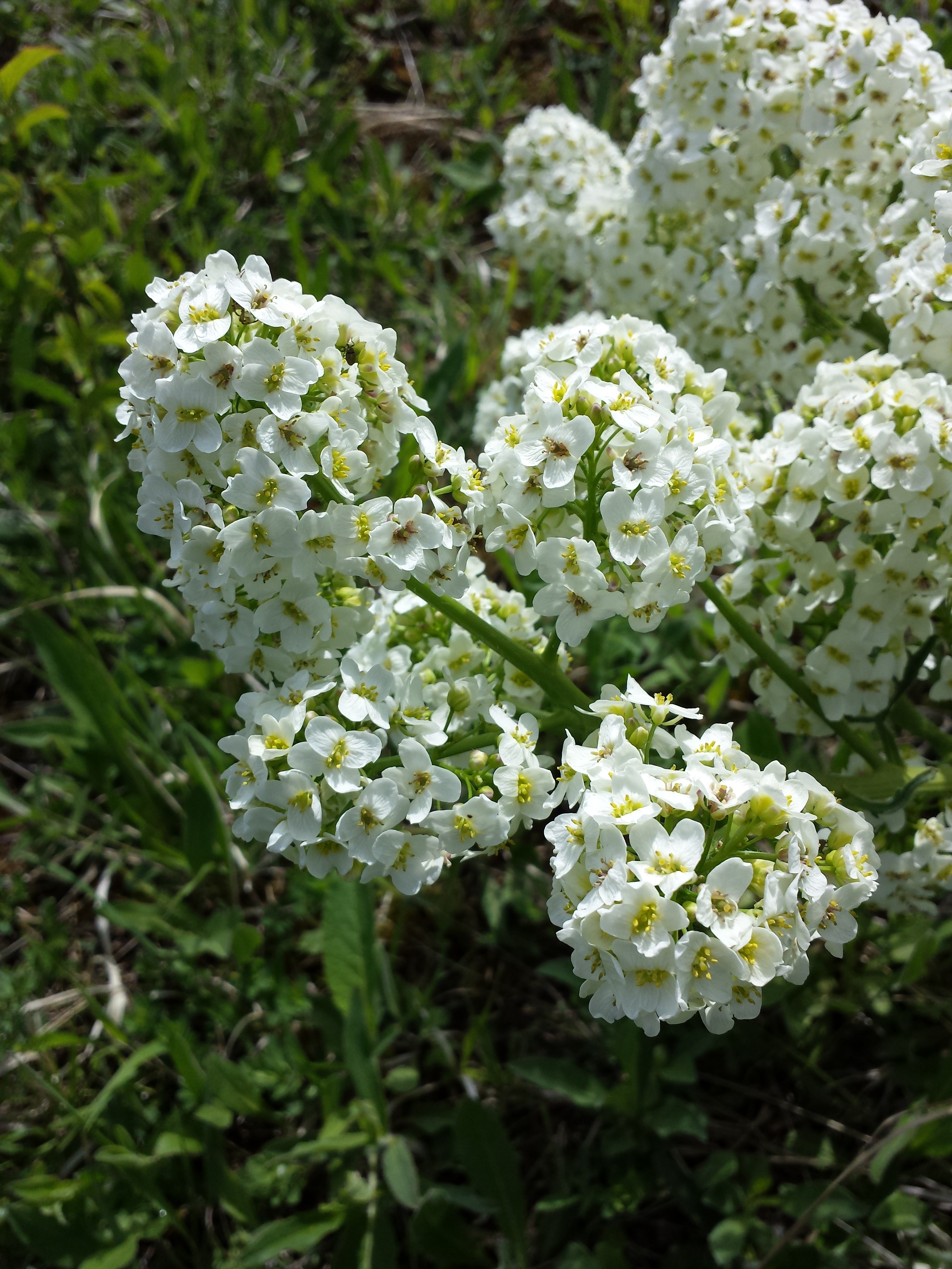 Inflorescence Taxonym: Crambe tataria ss Fischer et al. EfÖLS 2008 ISBN 978-3-85474-187-9 Location: Dunajovické kopce, Jihomoravský kraj, Czech Republic - ca. 275 m a.s.l. Habitat: dry grassland